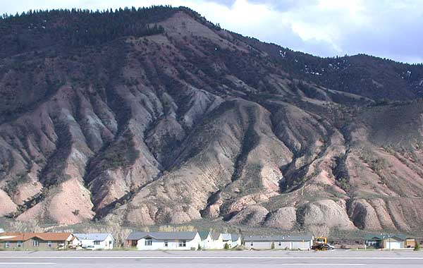 View of houses in Dotsero, Colorado, looking south from Interstate 70.